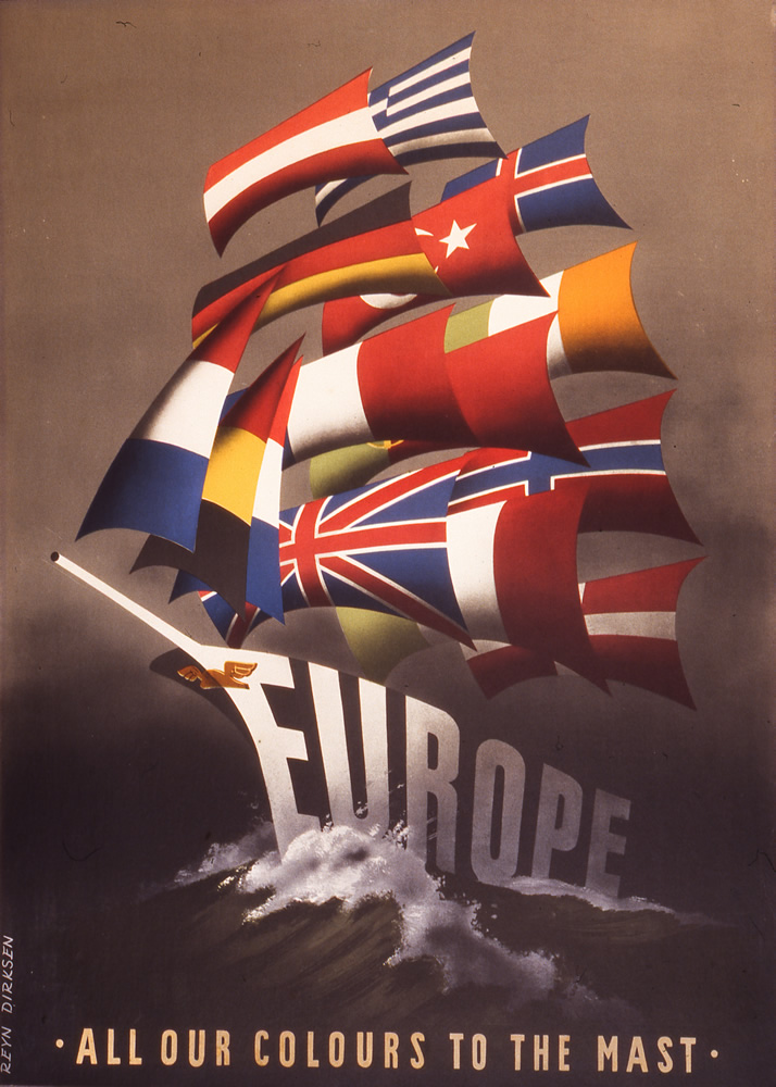 One of a number of posters created by the Economic Cooperation Administration, an agency of the U.S. government, to sell the Marshall Plan in Europe.